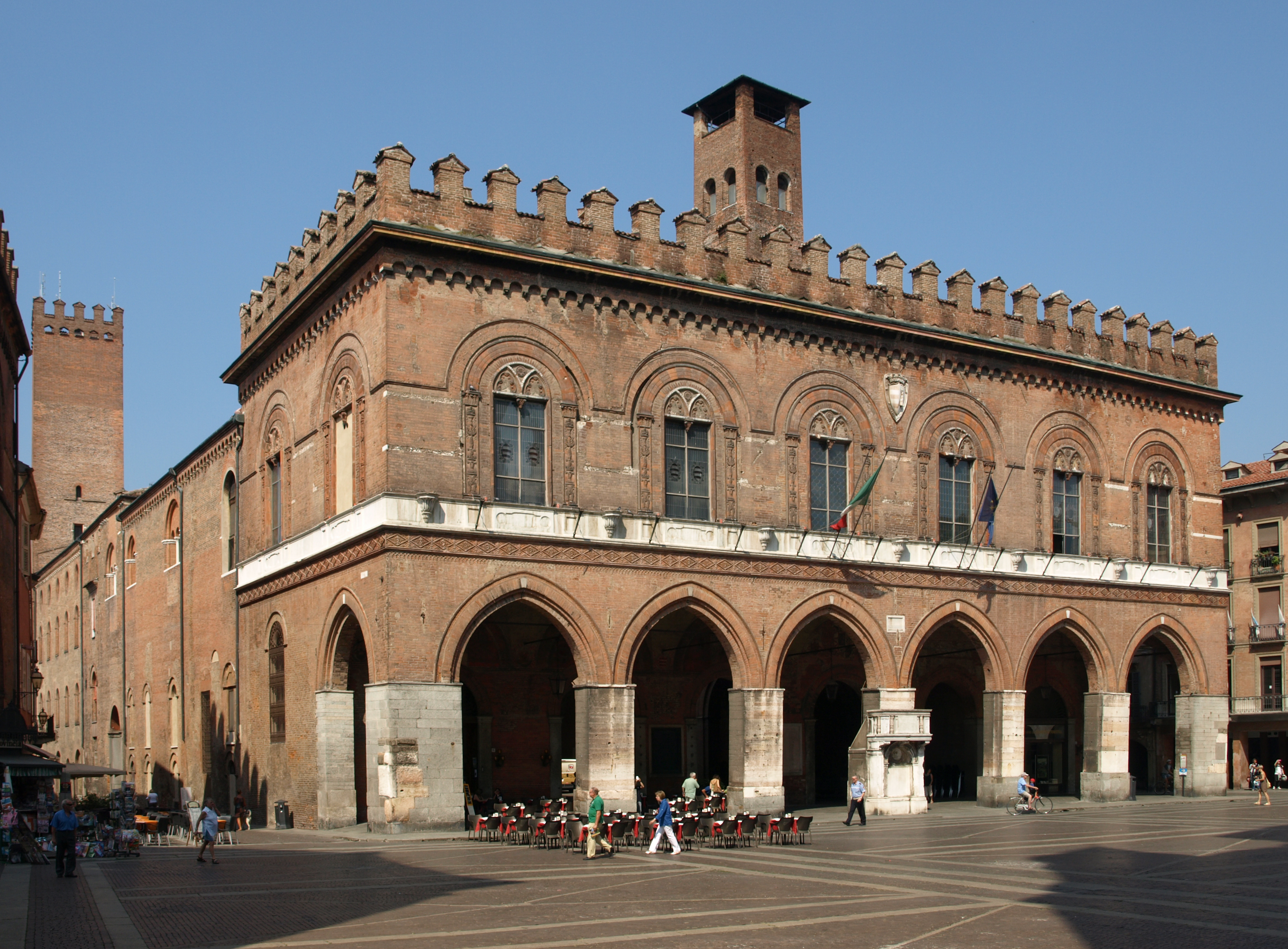 Cremona Town Hall